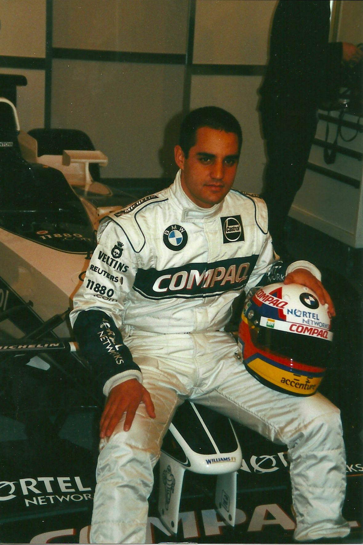 Juan Pablo Montoya sitting on the nose of his Williams FW23 Car at the 2001 Autosport International show